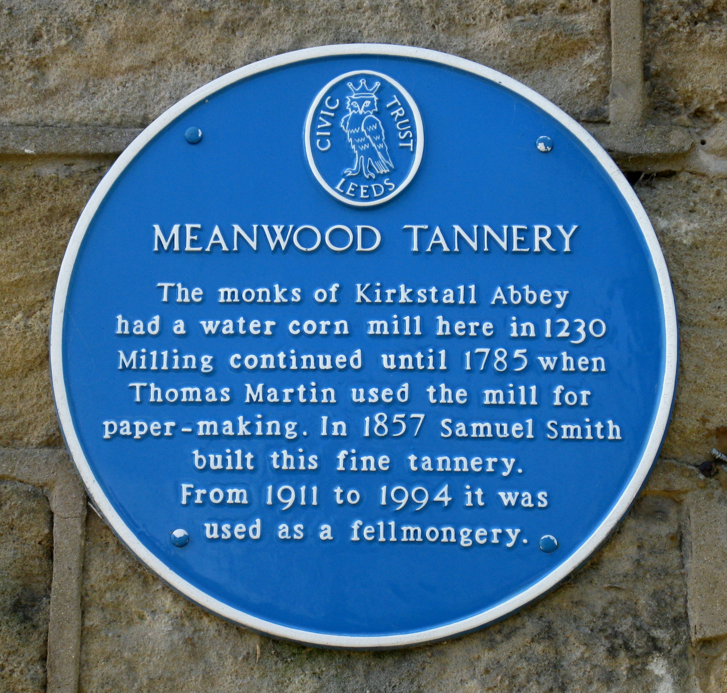 Blue plaque on the former Meanwood Tannery, Millpond Road, off Monksbridge Road, Meanwood, Leeds LS6